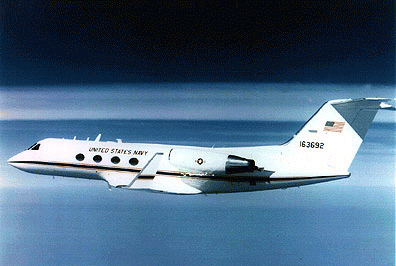 C-20 Gulfstream III aircraft in flight